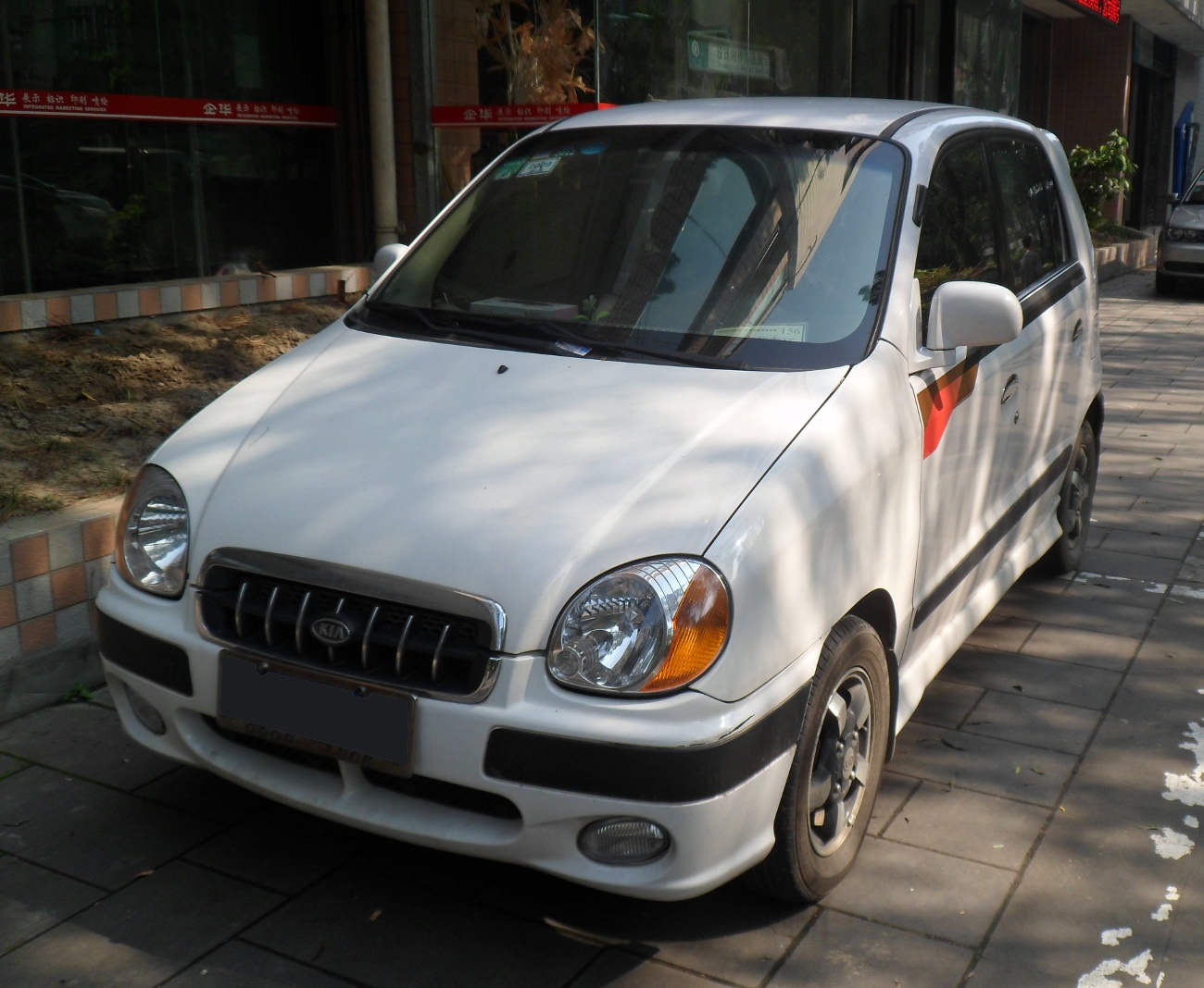 Kia Visto photographed in Chengdu, Sichuan province, China.